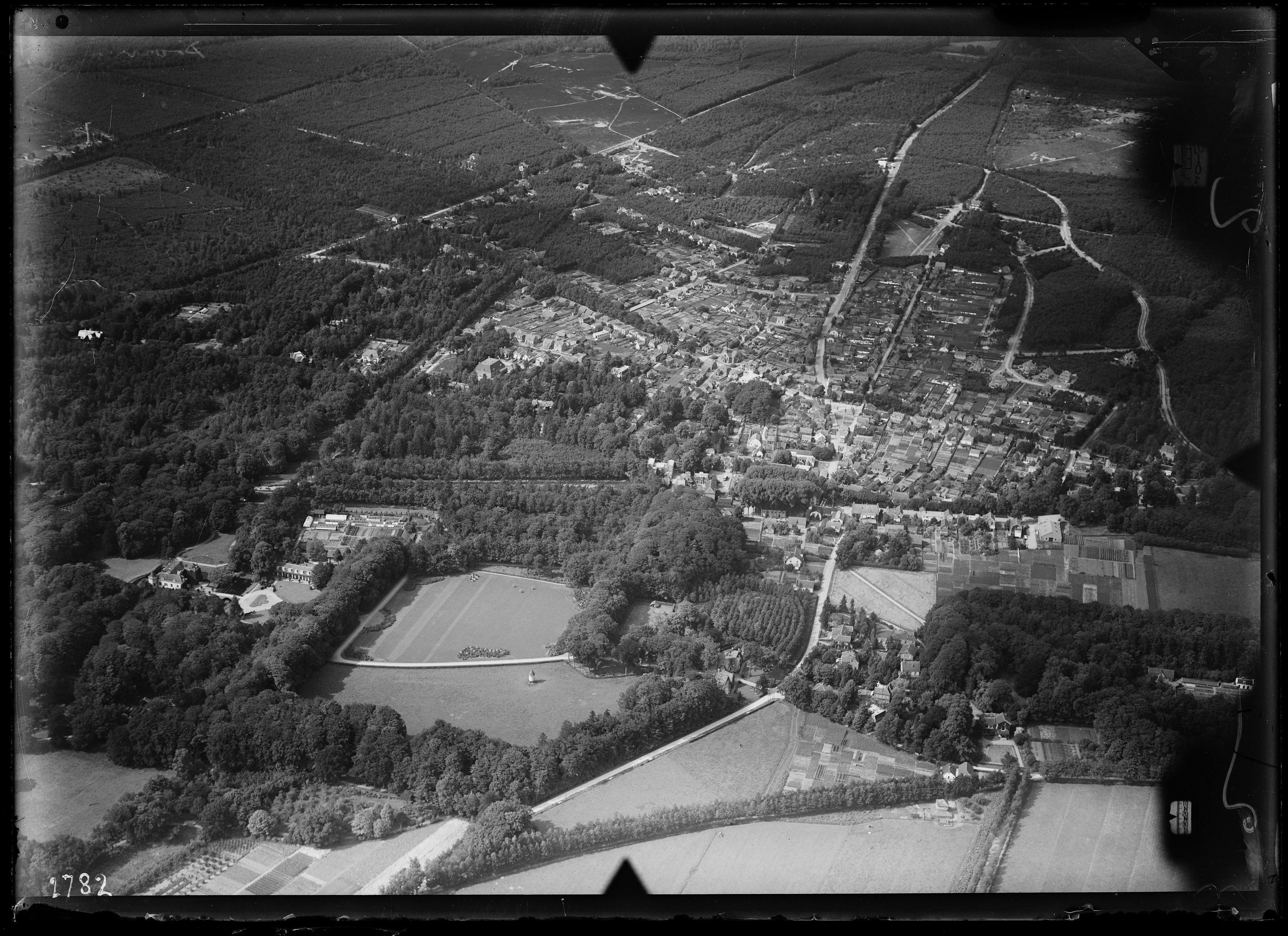 Aerial photograph of Doorn, The Netherlands